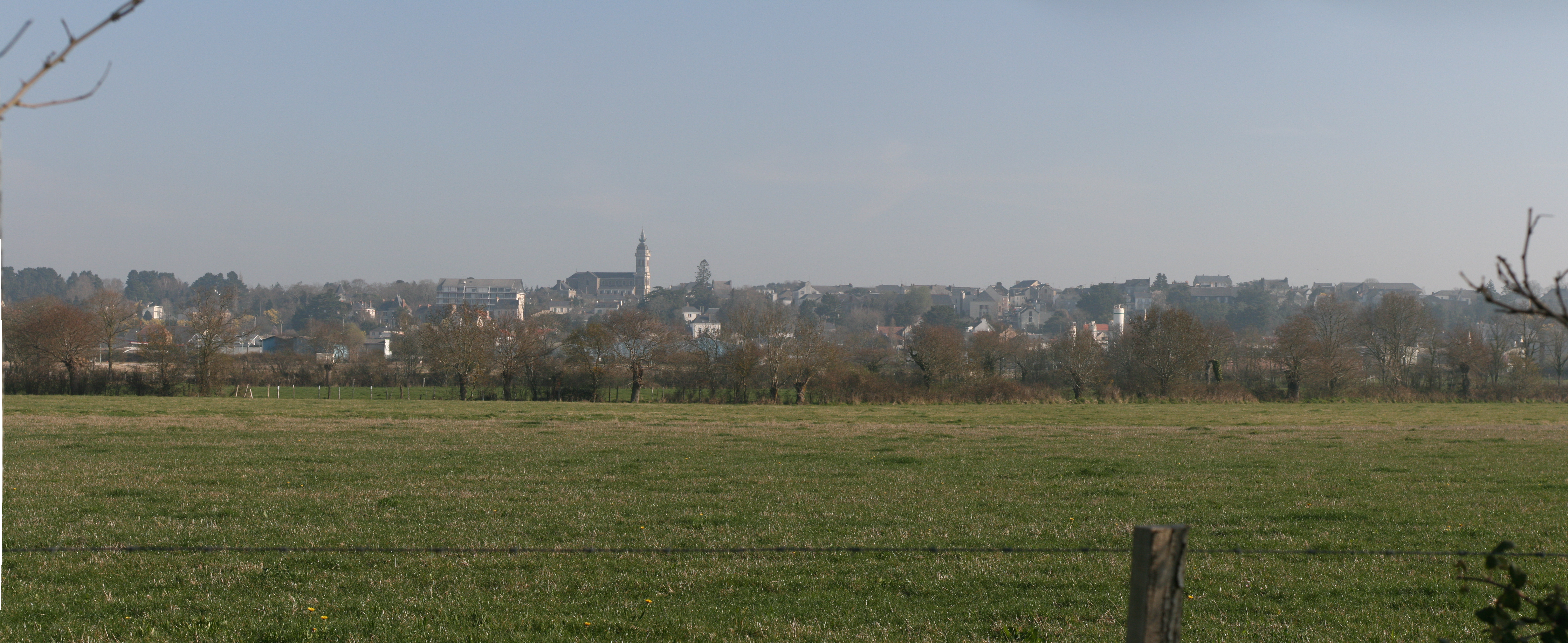 City of Savenay, panorama of the main town.